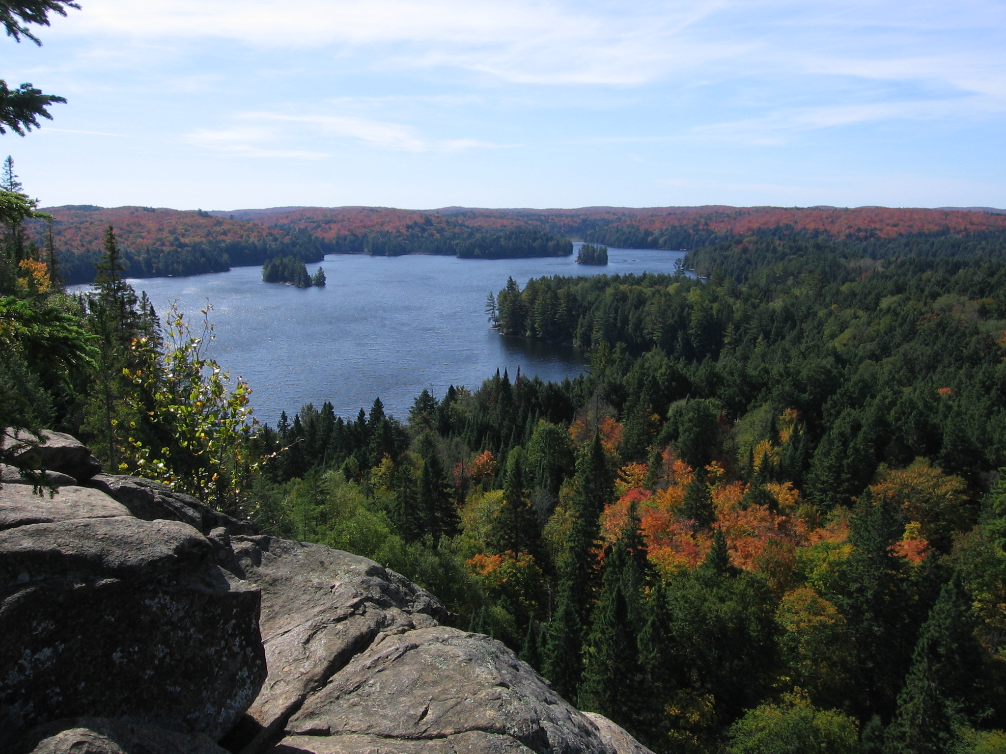 I took this photograph October 1, 2005 from the Cache Lake lookout on the Track and Tower trail.